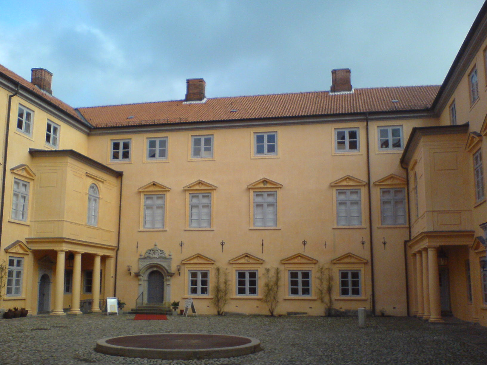 Description=Eutiner Schloss, Hof Source=myself Date=02.2007 Author=PodracerHH 19:47, 4 February 2007 (UTC)